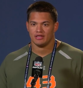 Xavier Su'a-Filo at the NFL combine, 2014. Screenshot from the following video